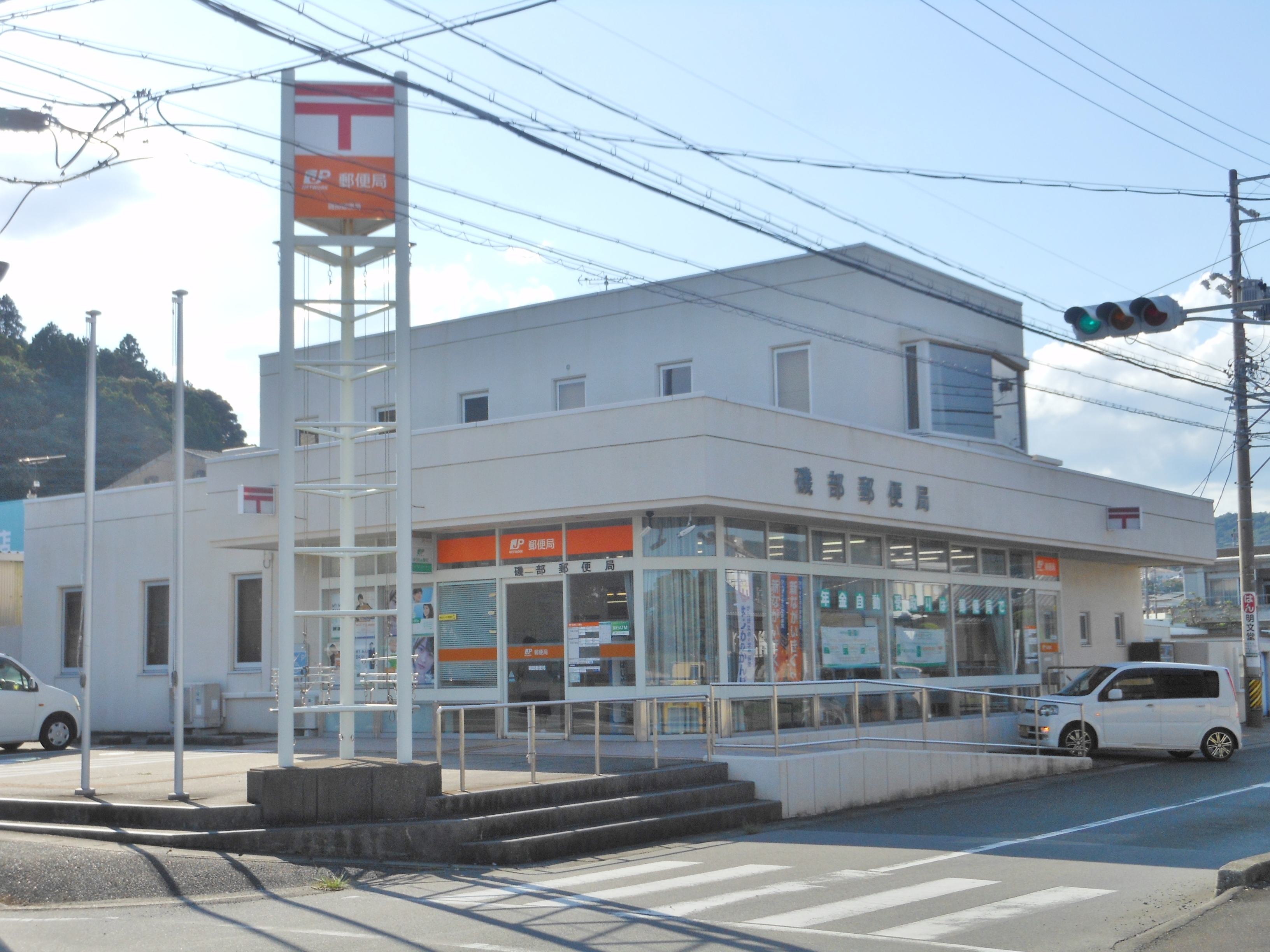 This is a post office in Japan.